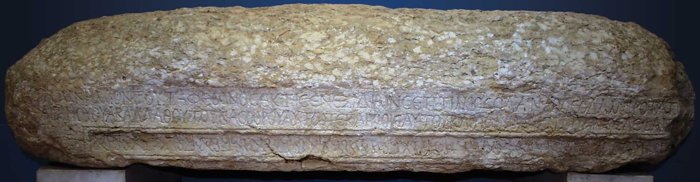 Stone block with an inscription of Odaenathus mentioning his building of a tomb. Museum of Palmyra.[1][2]